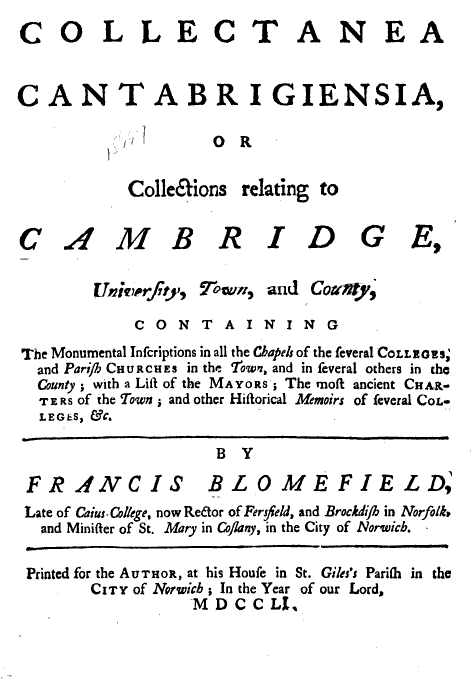 "Collectanea Cantabrigiensia, or Collections Relating to Cambridge," by Francis Blomefield, Printed for the Author, Norwich, 1751.